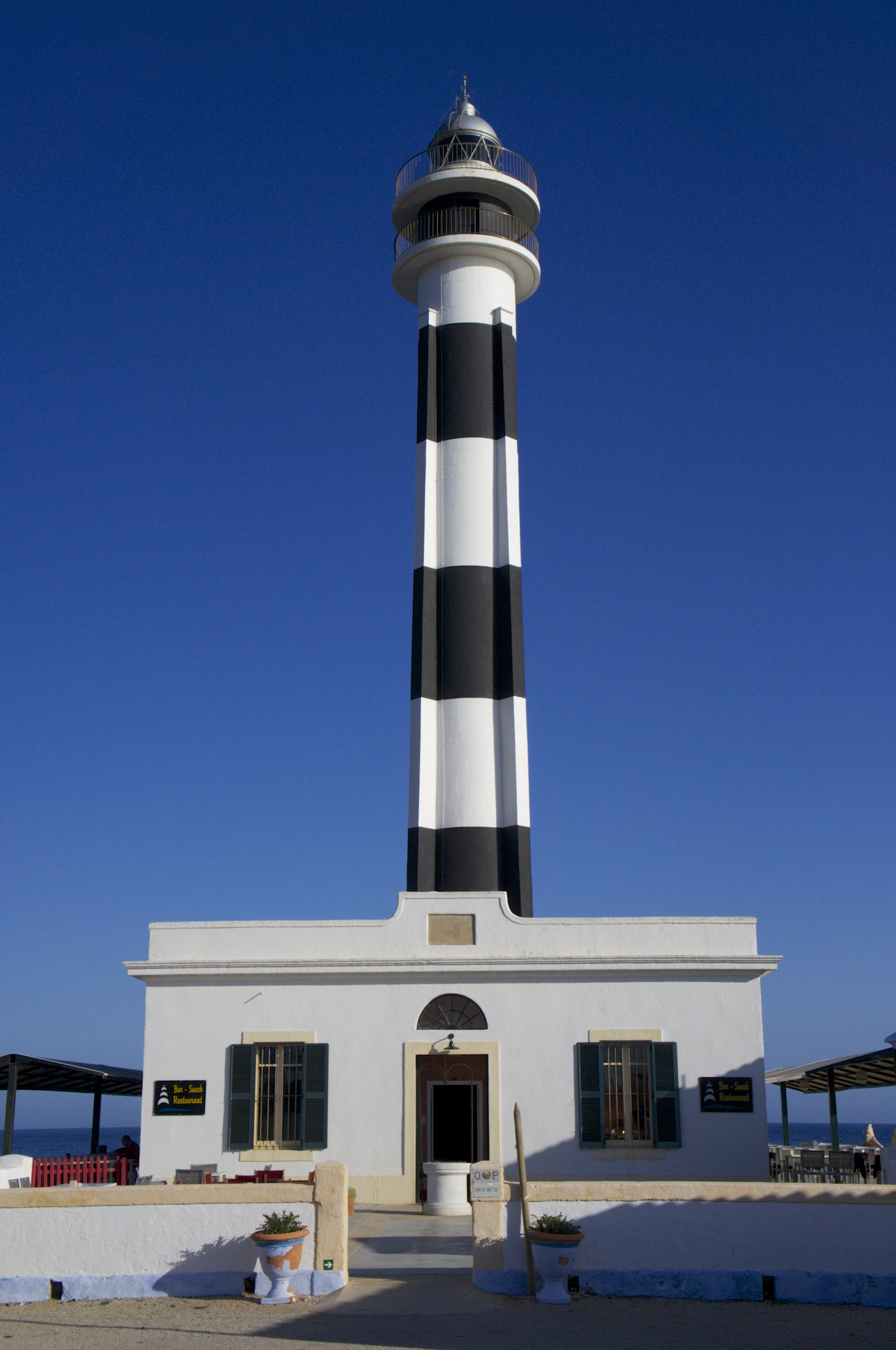 A lighthouse near our hotel.